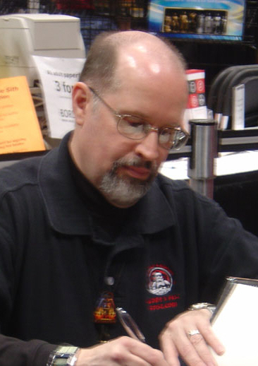 Star Wars Celebration III - Timothy Zahn signs his work